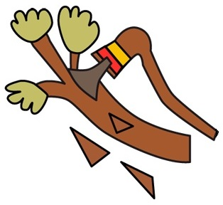 cuauhximalpan glifo logo toponimio